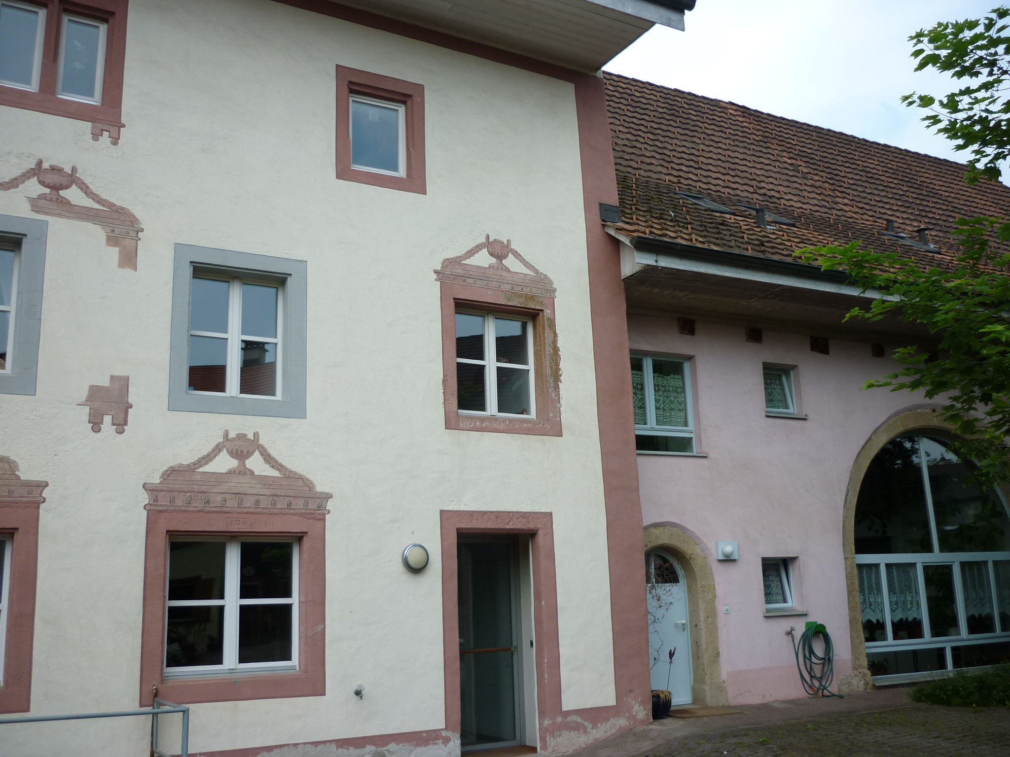 Old house from 1586, Gipf AG, Switzerland